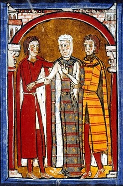 Bernard Aton de Bézier donne sa fille Ermengarde, avec des fiefs comme dot, au futur comte de Roussillon Gausfred III. Miniature with the representation of an act of marriage alliance. Viscount Bernard Atón of Beziers gives his daughter Ermengard in marriage to Gaufred, son of Count Girald I of Roussillon, future Gaufred III.